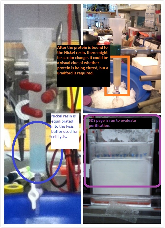 Affinity chromatography is a common and highly efficient technique used in protein purification after gene expression. Nickel resin is blue when fresh. It might experience a color change after binding to protein. An SDS page is crucial to determine and evaluate if we obtain our protein of interest.